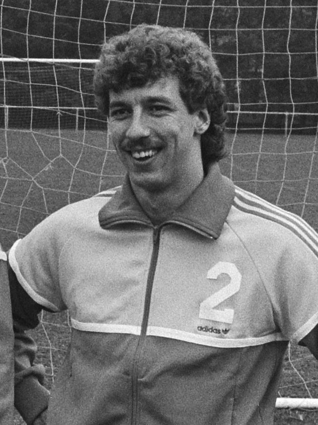 Dutch football team, training 13 March 1984. Wout Holverda.